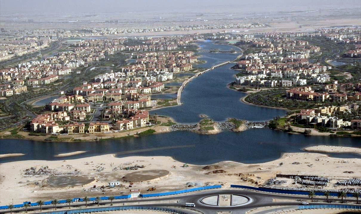 This is a photo showing Jumeirah Islands as seen from Almas Tower (in Jumeirah Lake Towers) in Dubai, United Arab Emirates on 28 February 2007.